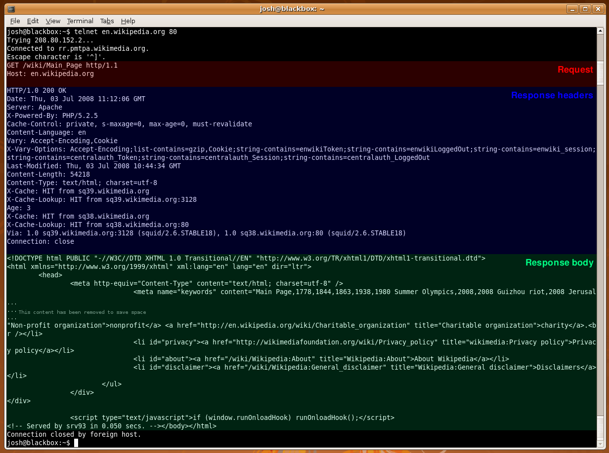 A screen shot of the terminal in Ubuntu showing a telnet session that contains a HTTP request/response made to the main page on the English Wikipedia. Part of the response has been removed. The 3 major parts of the request and response have been highlighted. (Request, Response headers, Response body).